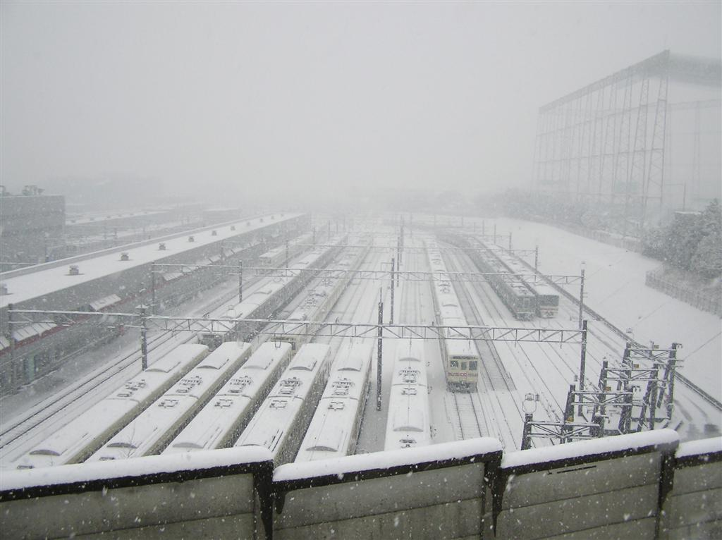 Wakabadai Inspection Depot with 9000 series EMU set 9731 train on the left